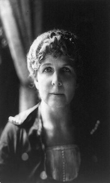 Florence Harding (1860 – 1924), wife of Warren G. Harding